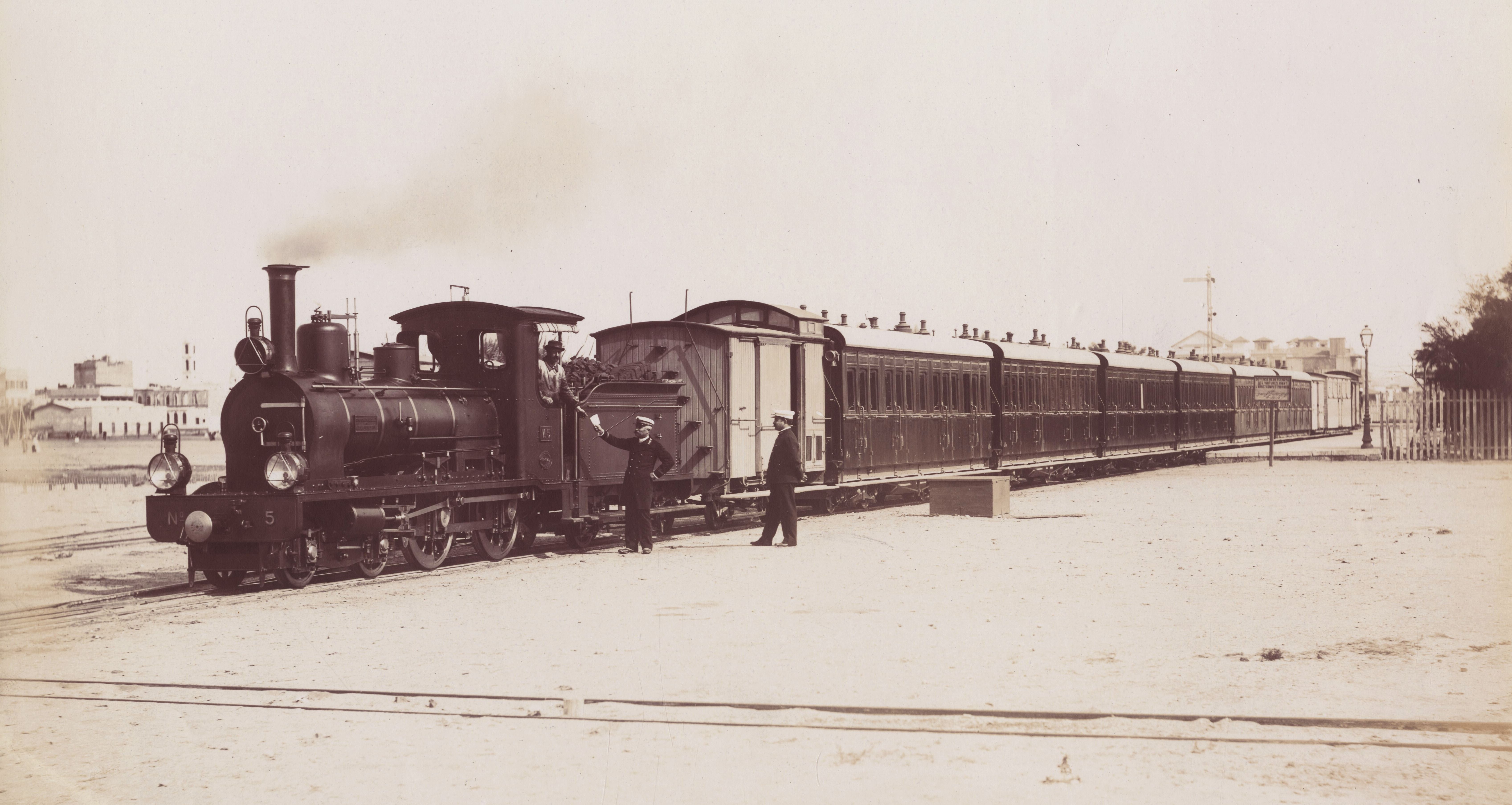 Egypt Railways - Port Said Railway Company - 4-4-0 steam locomotive Nr. V5 (SACM Graffenstaden, 1896) and a passenger train (cropped)